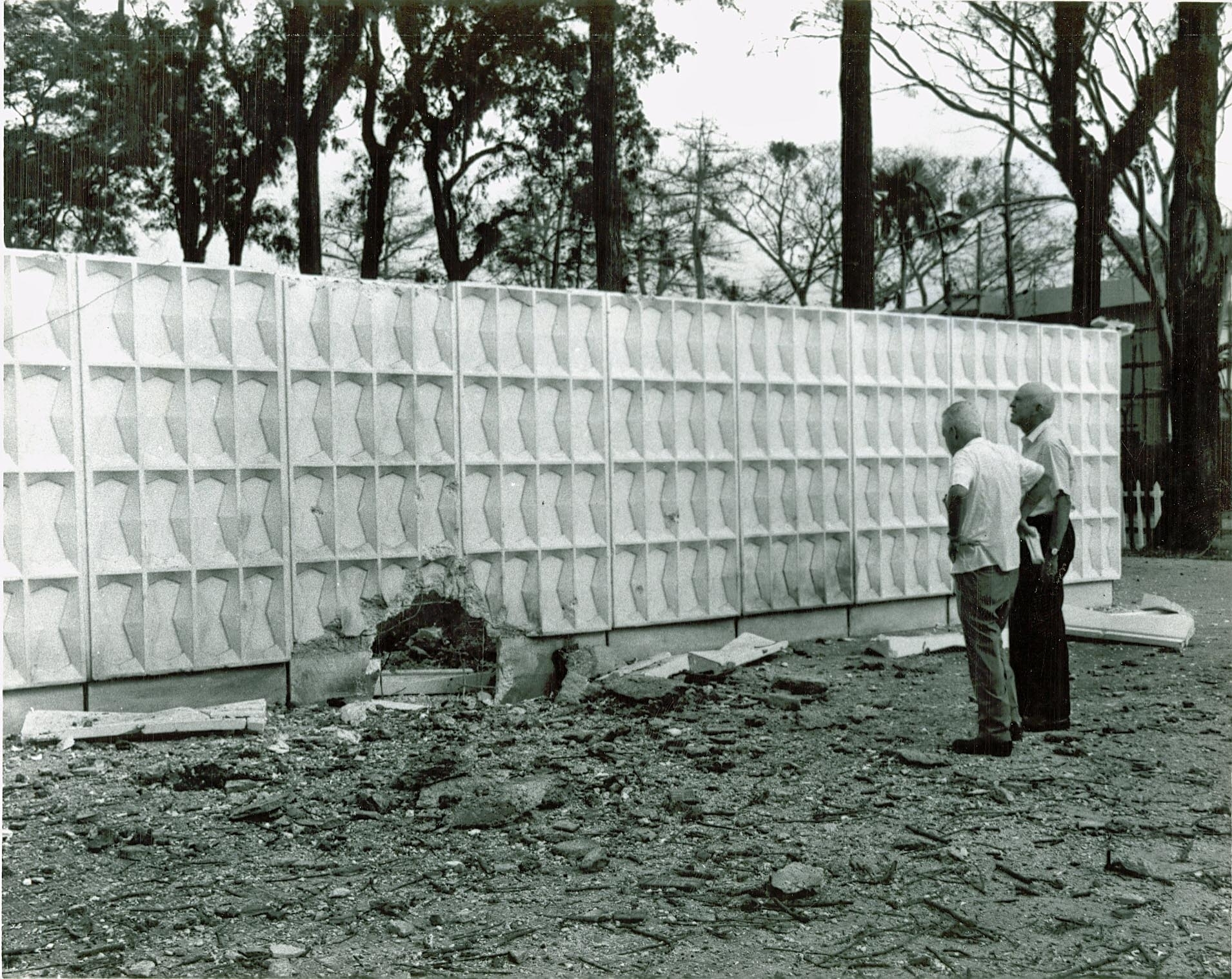 The hole blasted in the US embassy wall that allowed Viet Cong (VC) forces access to the embassy compound. For a period of time they laid siege to the embassy inflicting considerable damage and loss of life until US forces destroyed the enemy force (Original caption)